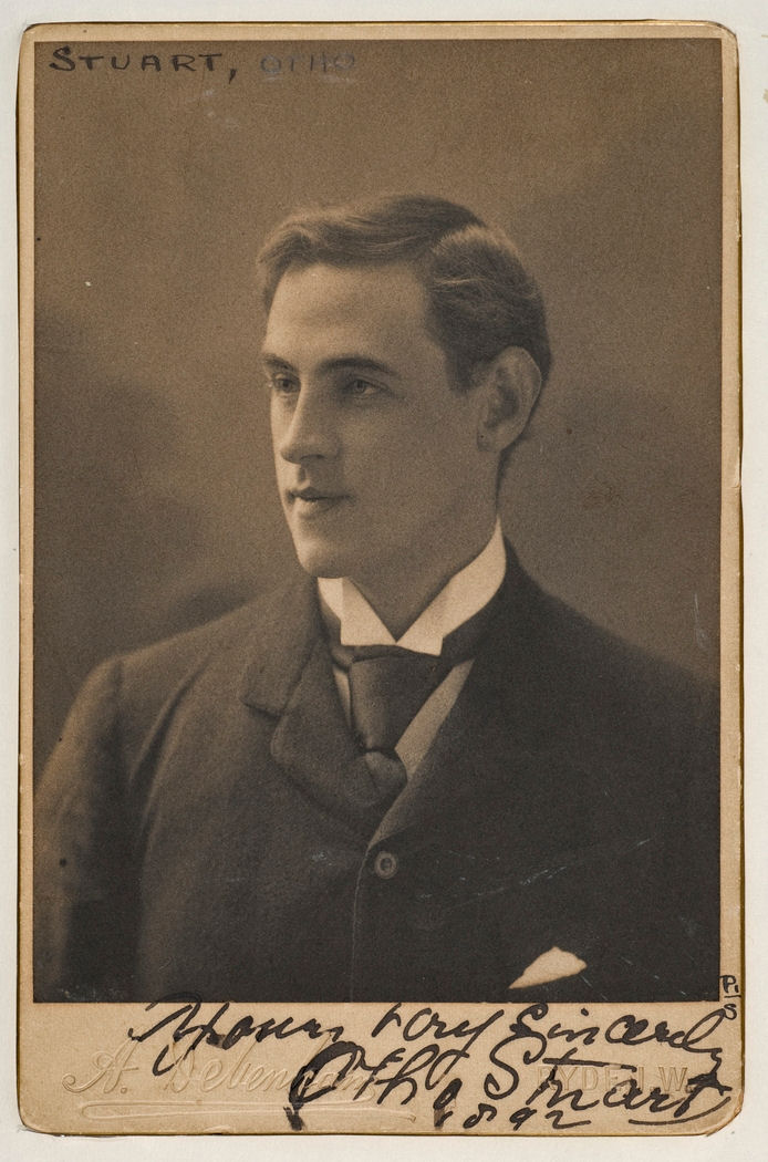 The actor-manager Otho Stuart (1863-1930) photographed by A. Debenham, Ryde, Isle of Wight (1892)